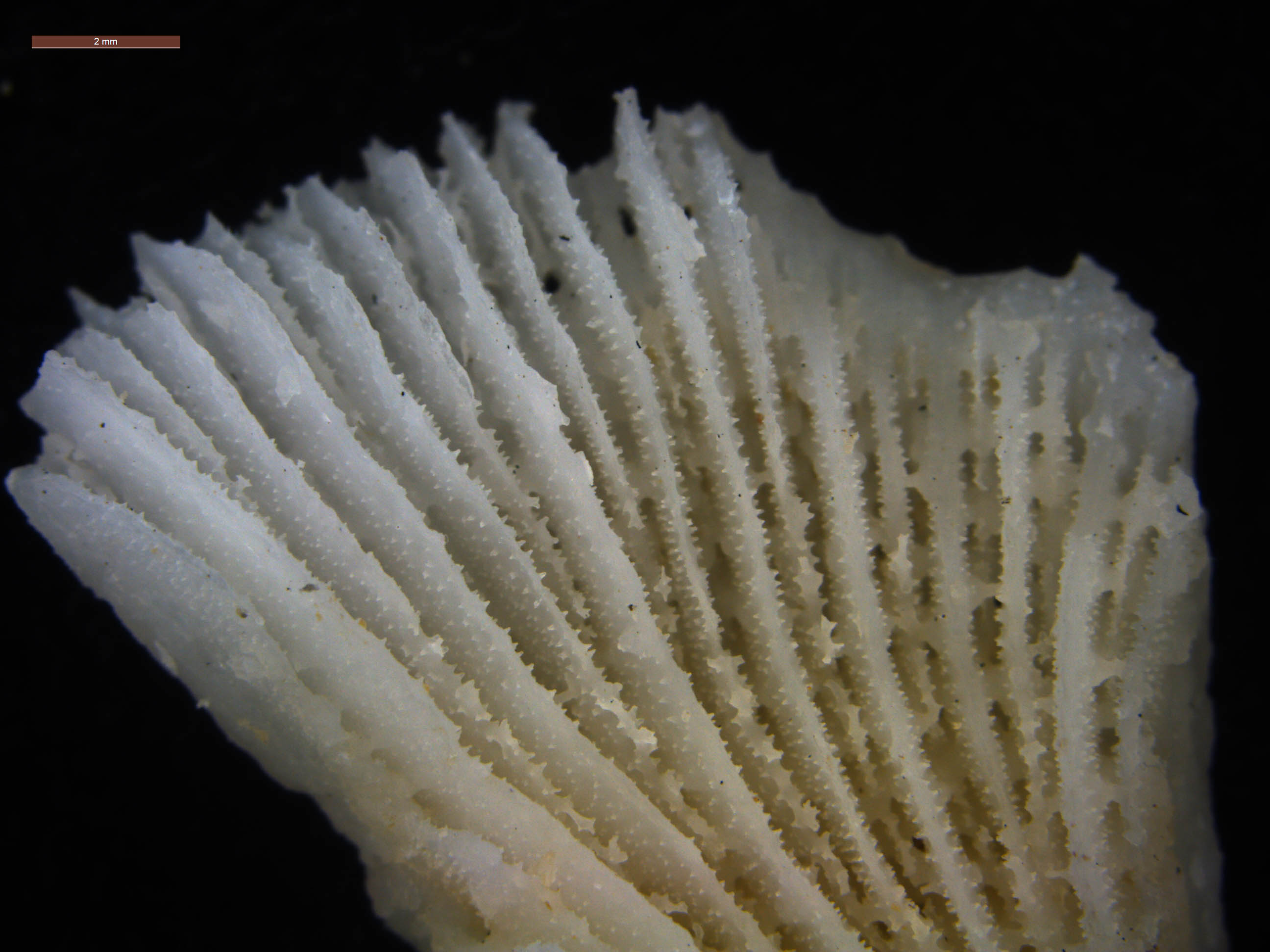 GCMP_sample_photo_732